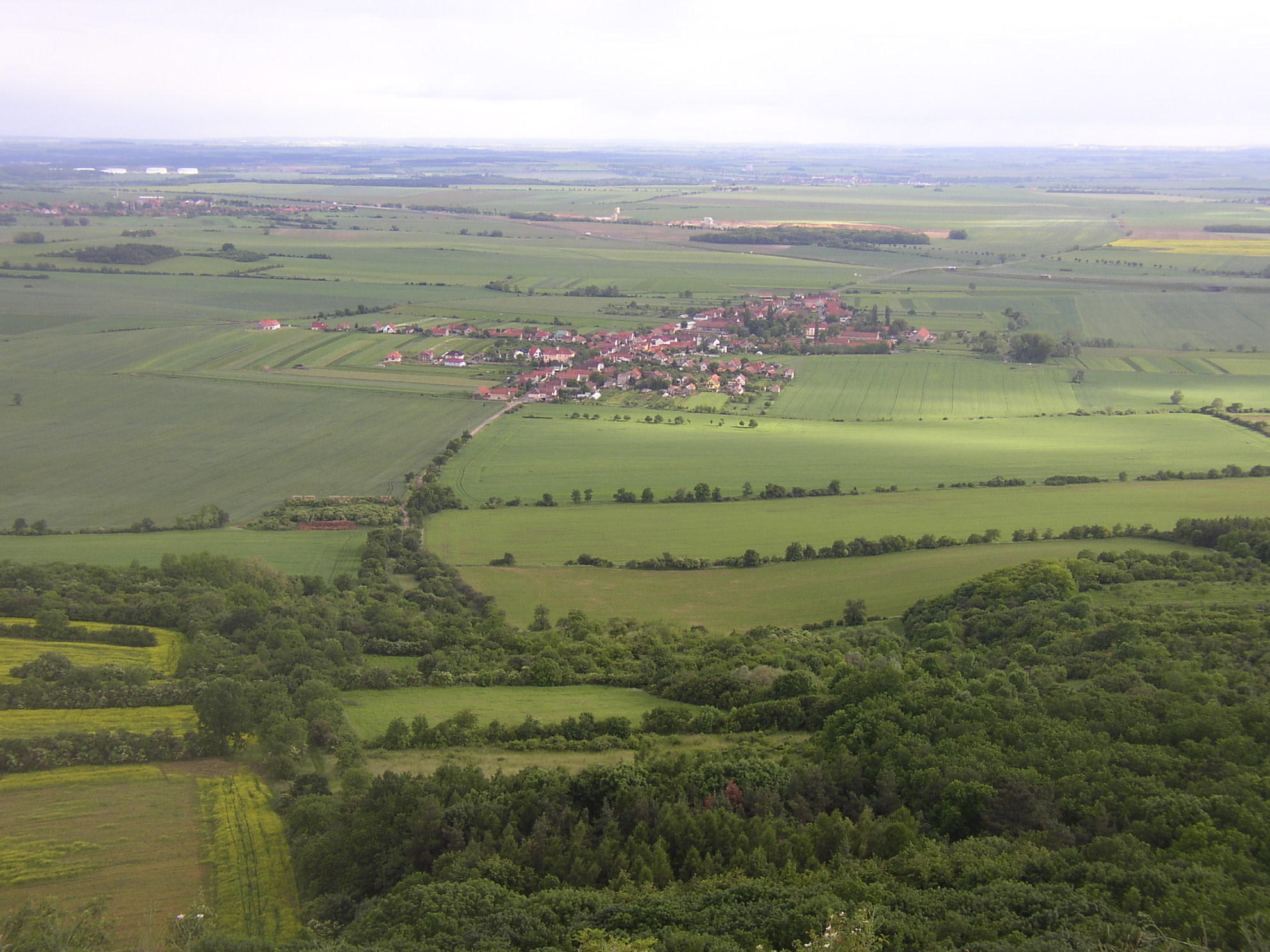 A view from the Říp Mountain towards the south. In the foreground village of Mnetěš, (Litoměřice District), close to the left edge in a distance of about 5 km village of Ledčice (Mělník District) and giant white tanks of the Central Oil Storage near Nelahozeves, some 11 km away from the observer. Highway D8 intersects the whole landscape as a straght barely visible line just beyond both above mentioned villages.